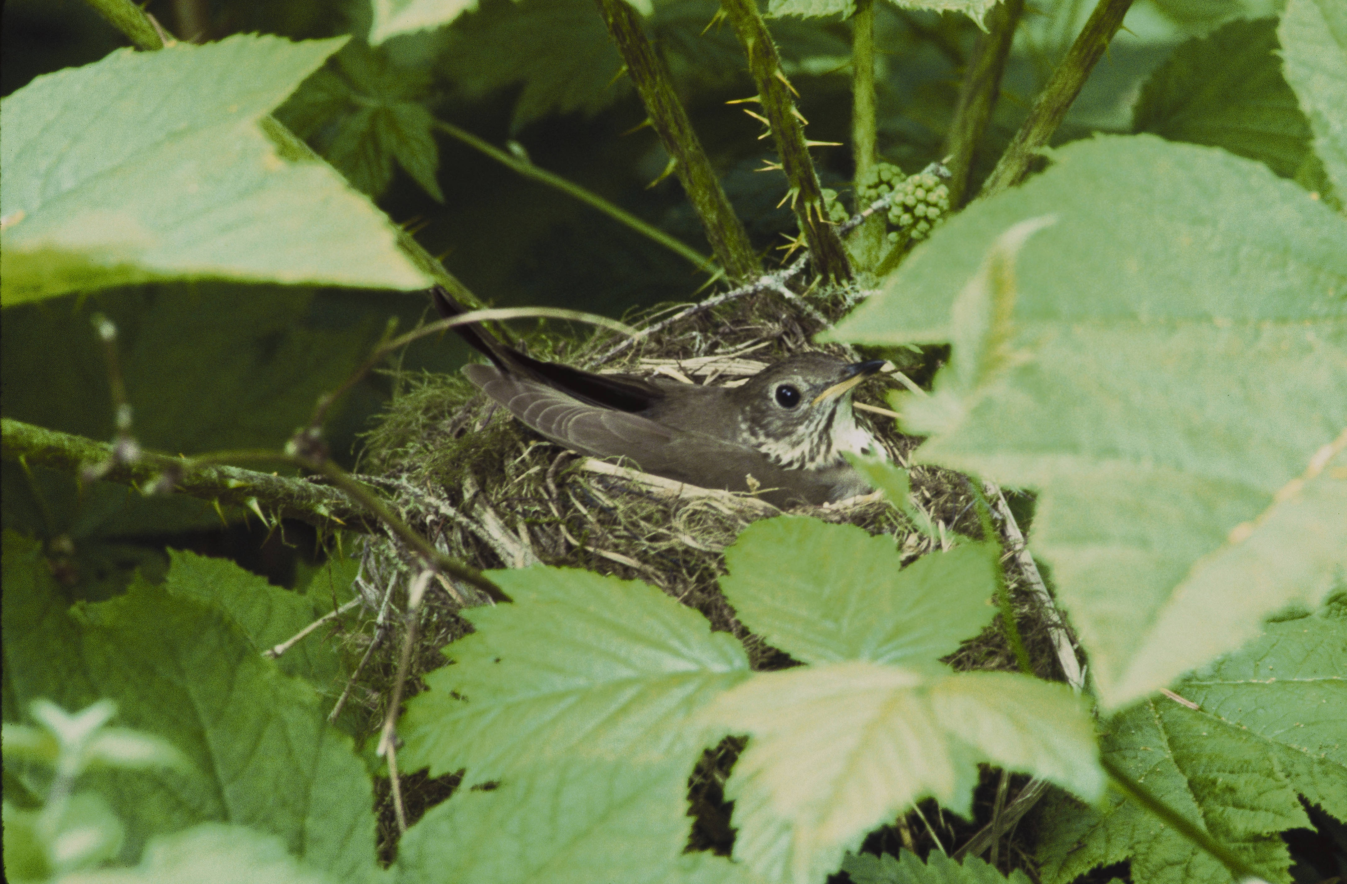 Catharus minimus, Kodiak National Wildlife Refuge (Kodiak Island, Alaska, USA)